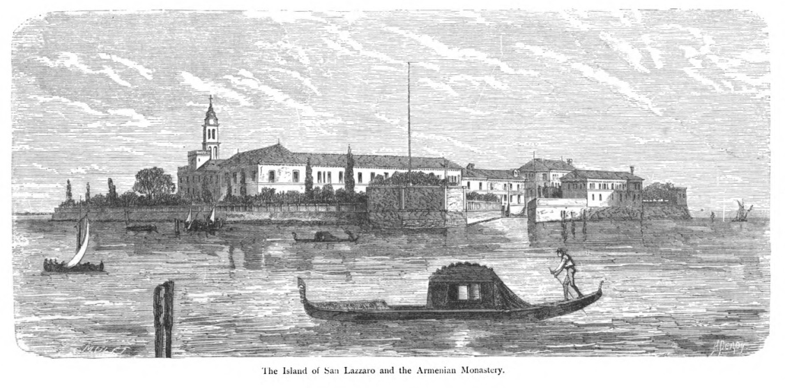 San Lazzaro degli Armeni